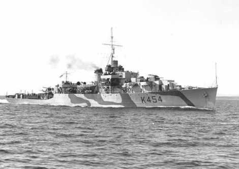 River class frigate HMCS St. Stephens